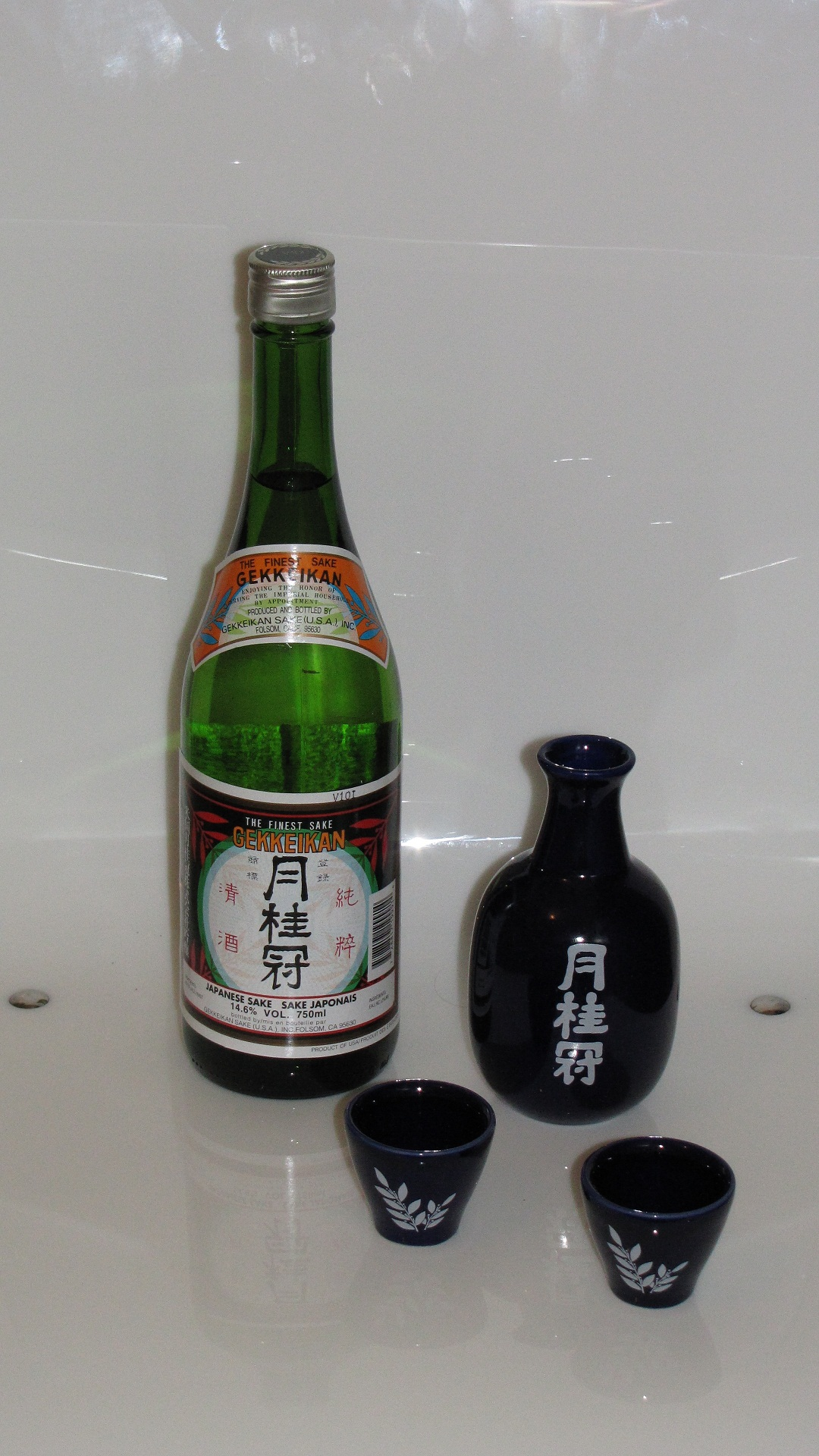 Gekkeikan sake bottle.